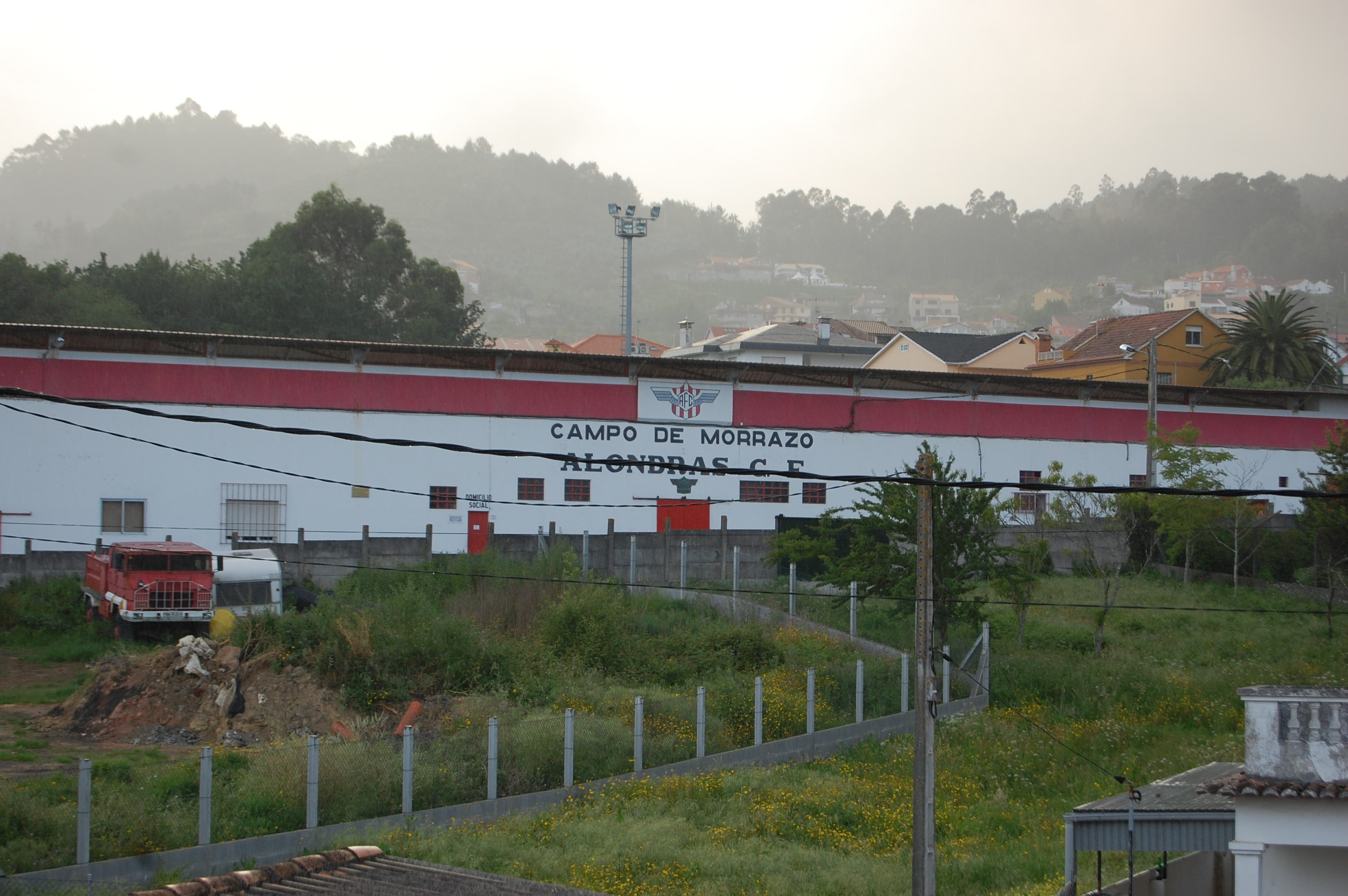 Stadium of Alondras Club de Fútbol